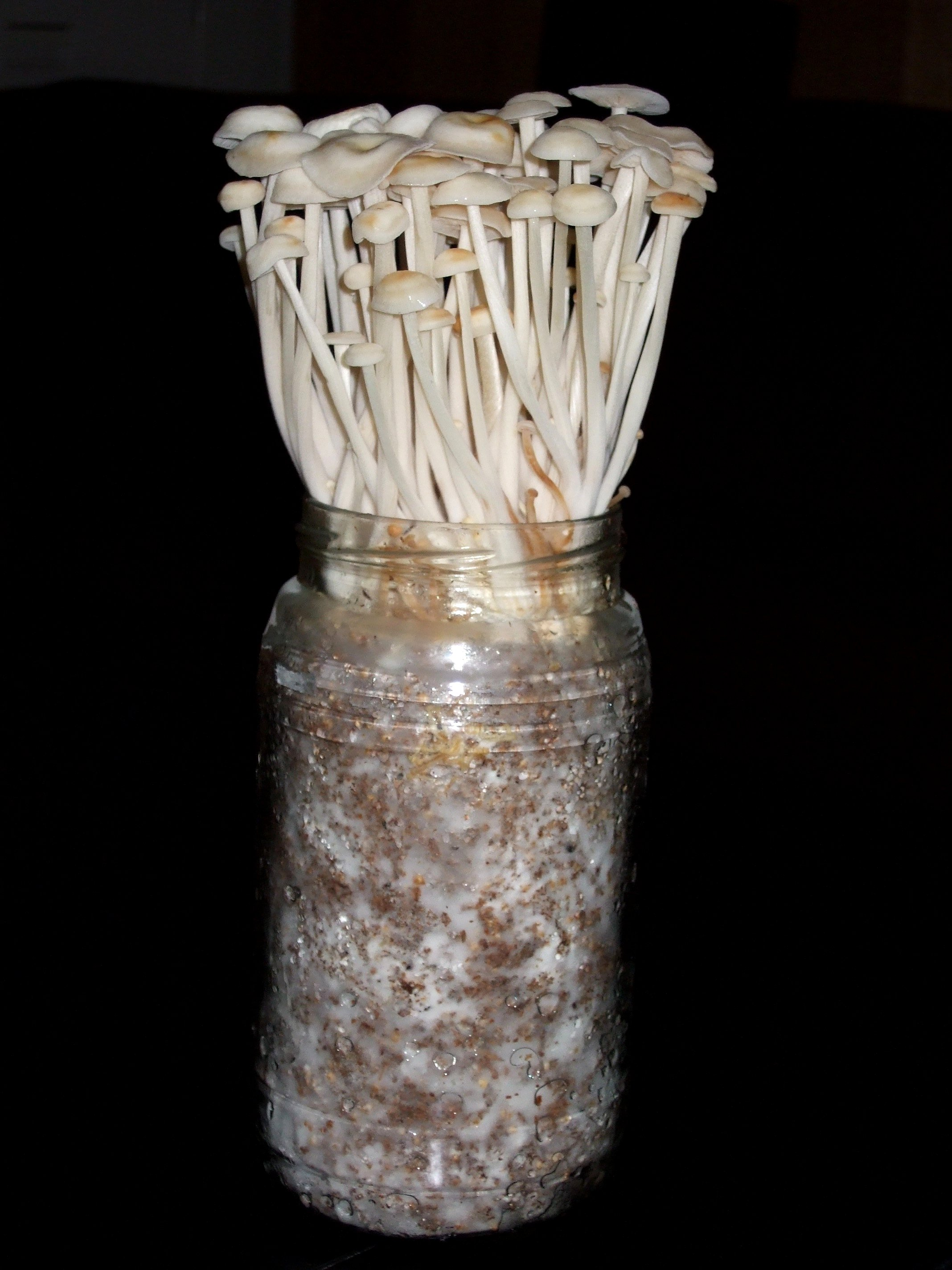 Enokitake mushrooms grown in a glass jar. A cardboard collar place on top of the jar raised the CO2 levels and resulted in the long stems. With this jar method, there is typically only a single crop, and then the jar must be emptied of substrate and cleaned. I found it to be a chore, but many large-scale growers have automated this process and grow these mushrooms exclusively in jars.